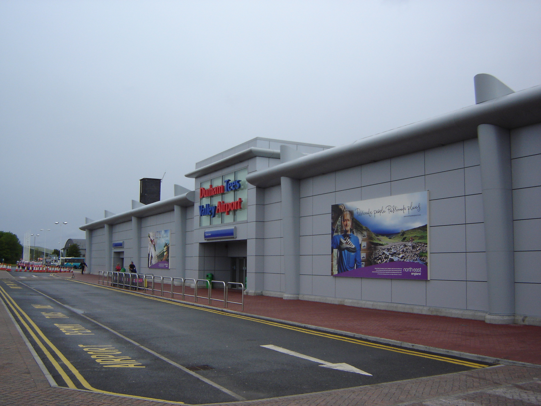 Durham Tees Valley Airport Terminal Building